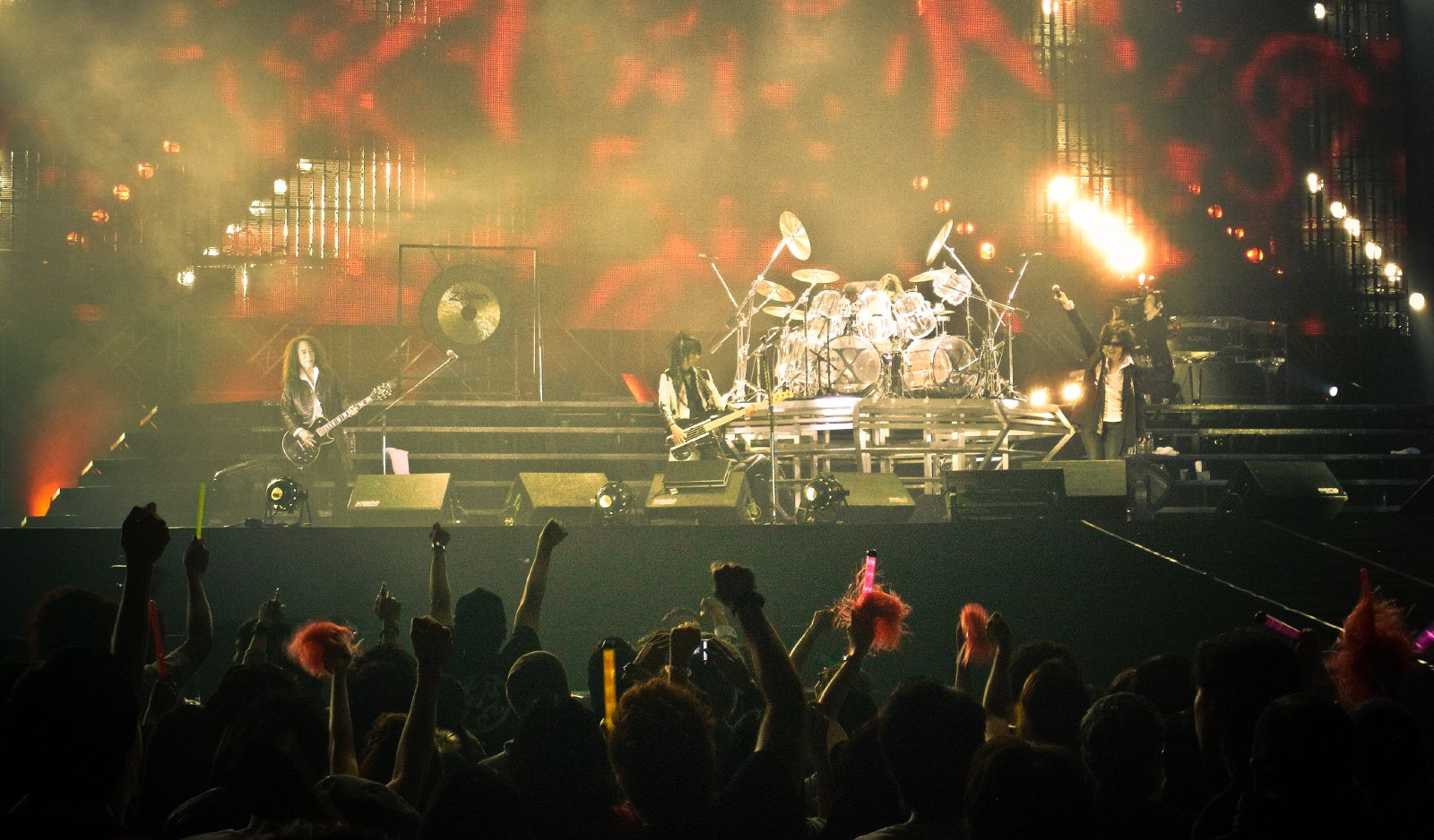 Japanese rock band X Japan performing live in Hong Kong on January 16, 2009